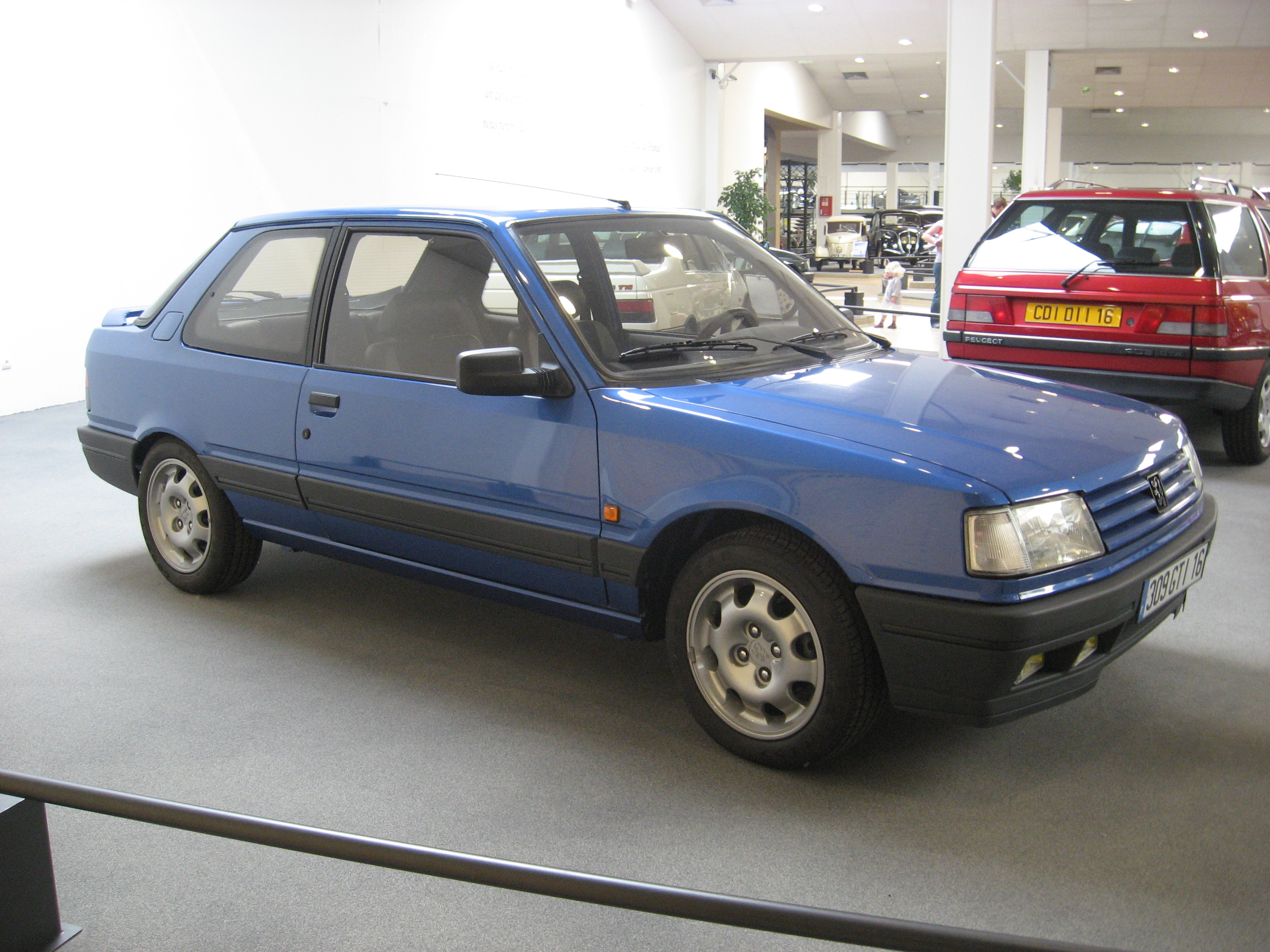 Subject: Peugeot 309 GTI 16v Date:April 26th, 2011 Place/Country: Musée de l'Aventure Peugeot, Sochaux (France) I release all rights in the public domain.